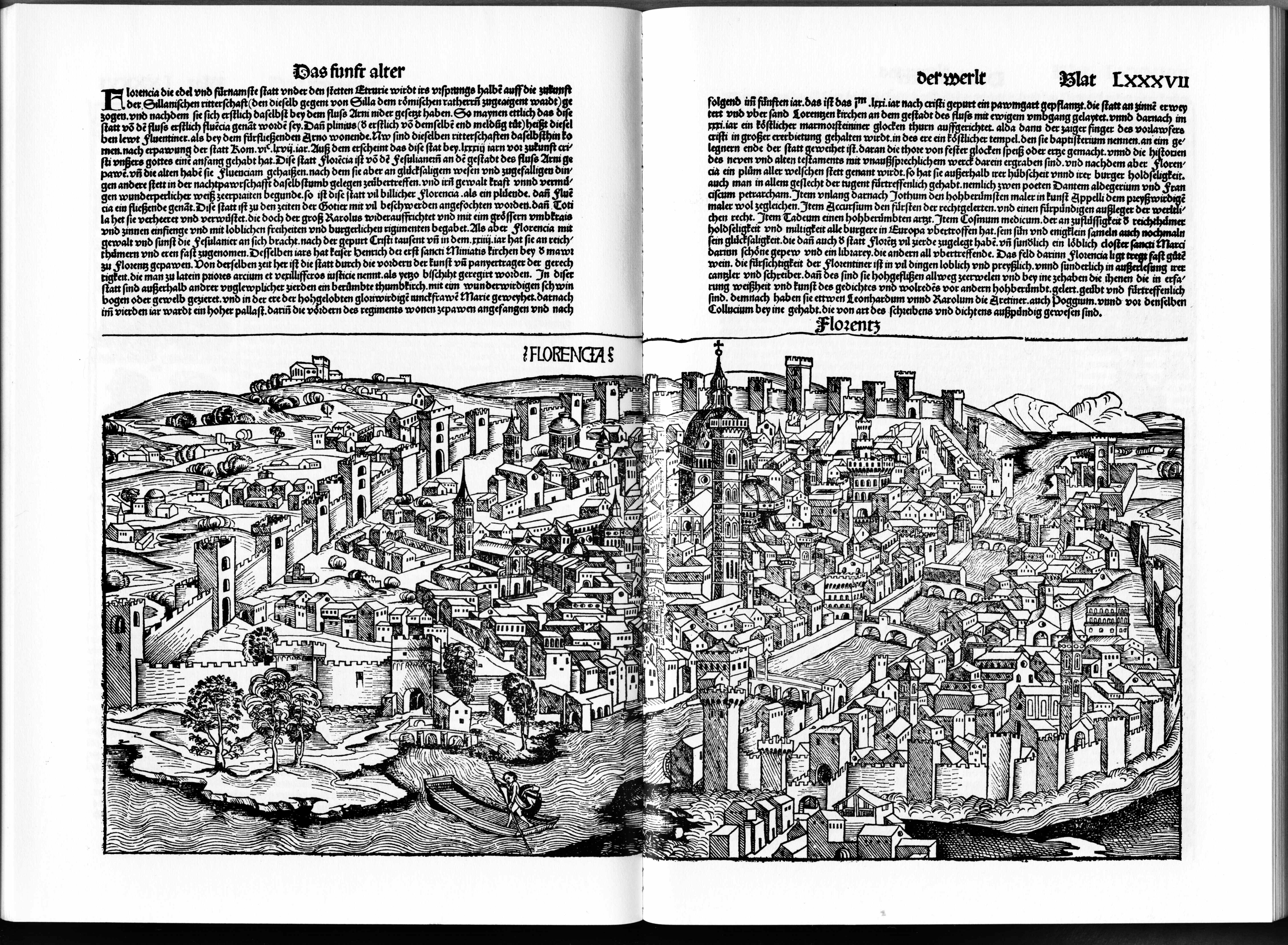 This is a scan of the historical document